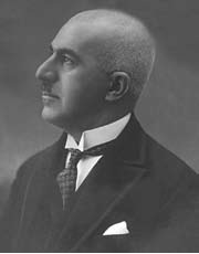 Mehmet Behiç Bey (Erkin)